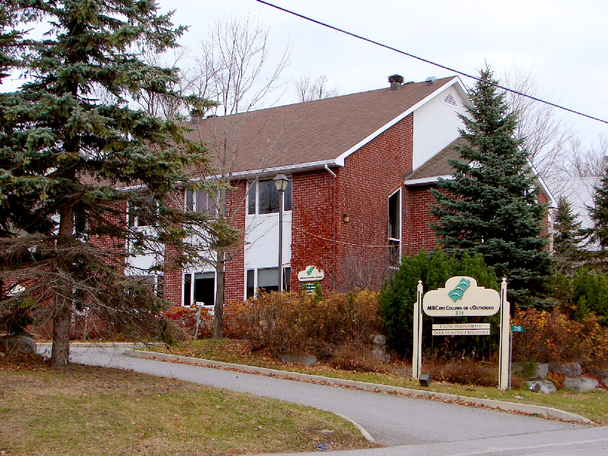 Office of the Collines-de-l'Outaouais Regional County Municipality, Quebec, Canada